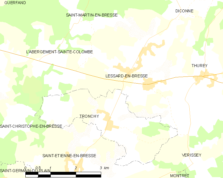 Map of French municipality